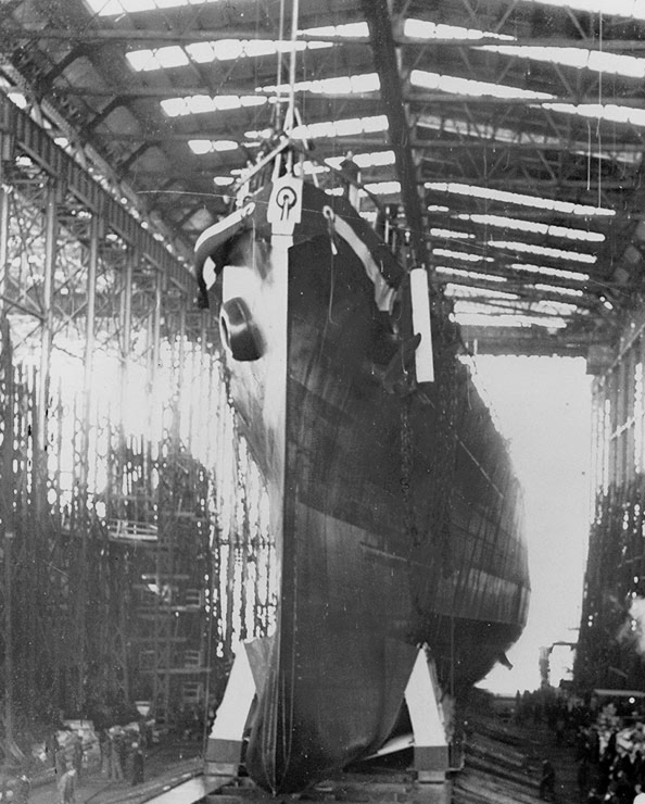 The U.S. Navy light cruiser USS Montpelier (CL-57) launching, at the New York Shipbuilding Corporation shipyard, Camden, New Jersey (USA), 12 February 1942.